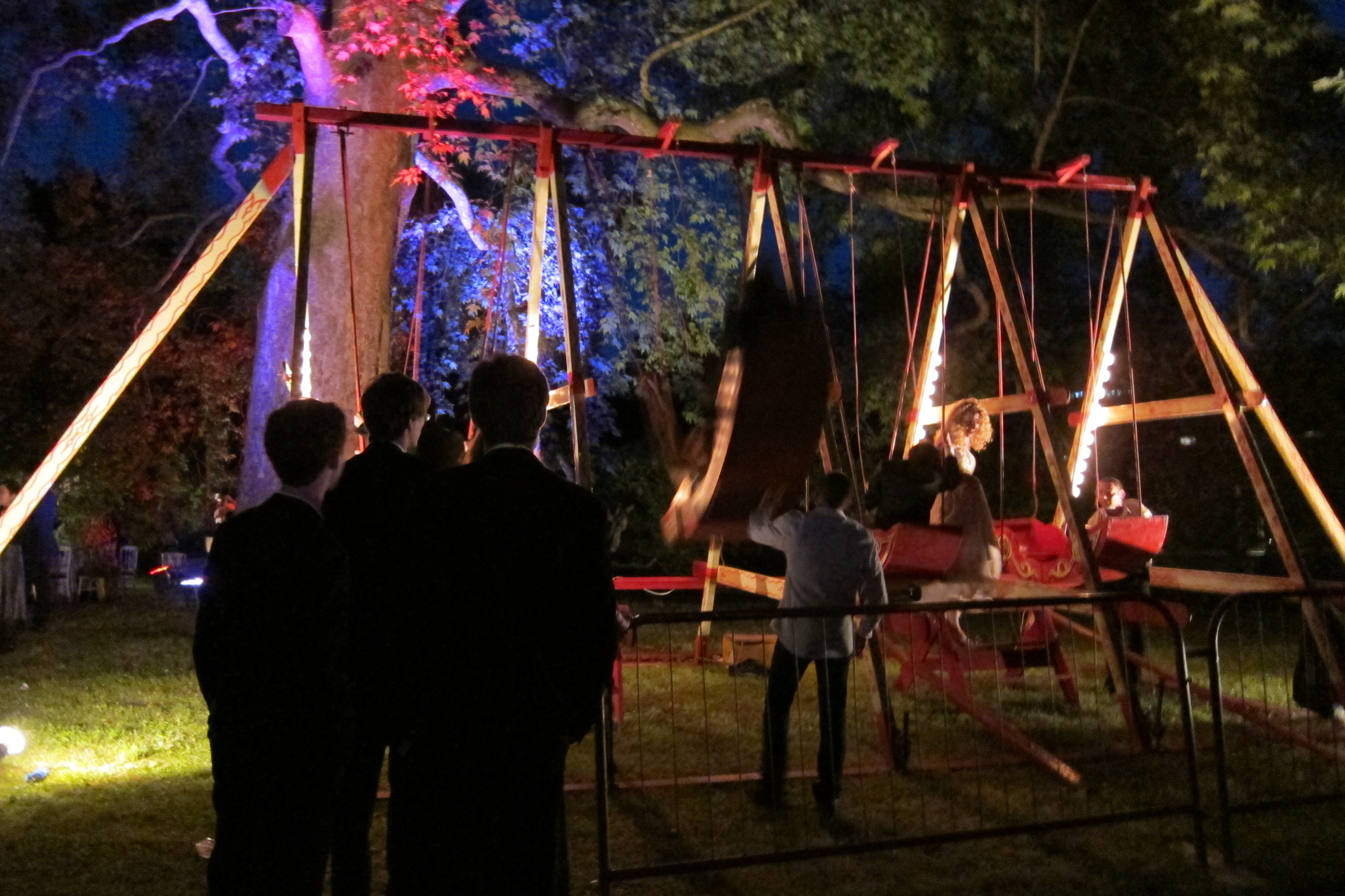 Swing boats, Jesus College May Ball, 2012